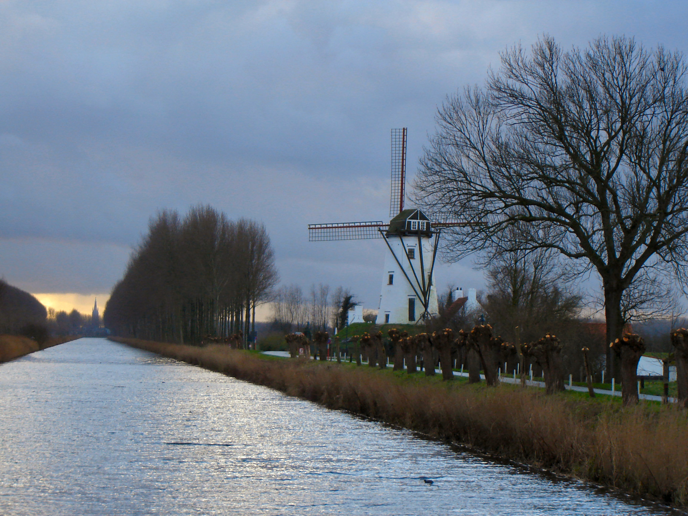 Damse Vaart canal, as seen from bridge in Damme, West-Flanders, Belgium. The Church of Our Lady in Bruges is seen in the background.